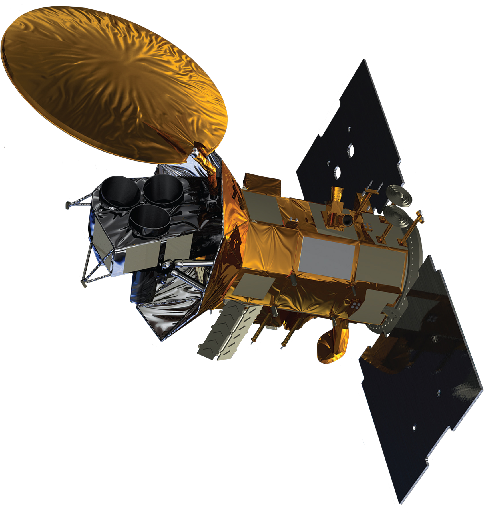 Artist's concept of the SAC-D satellite.